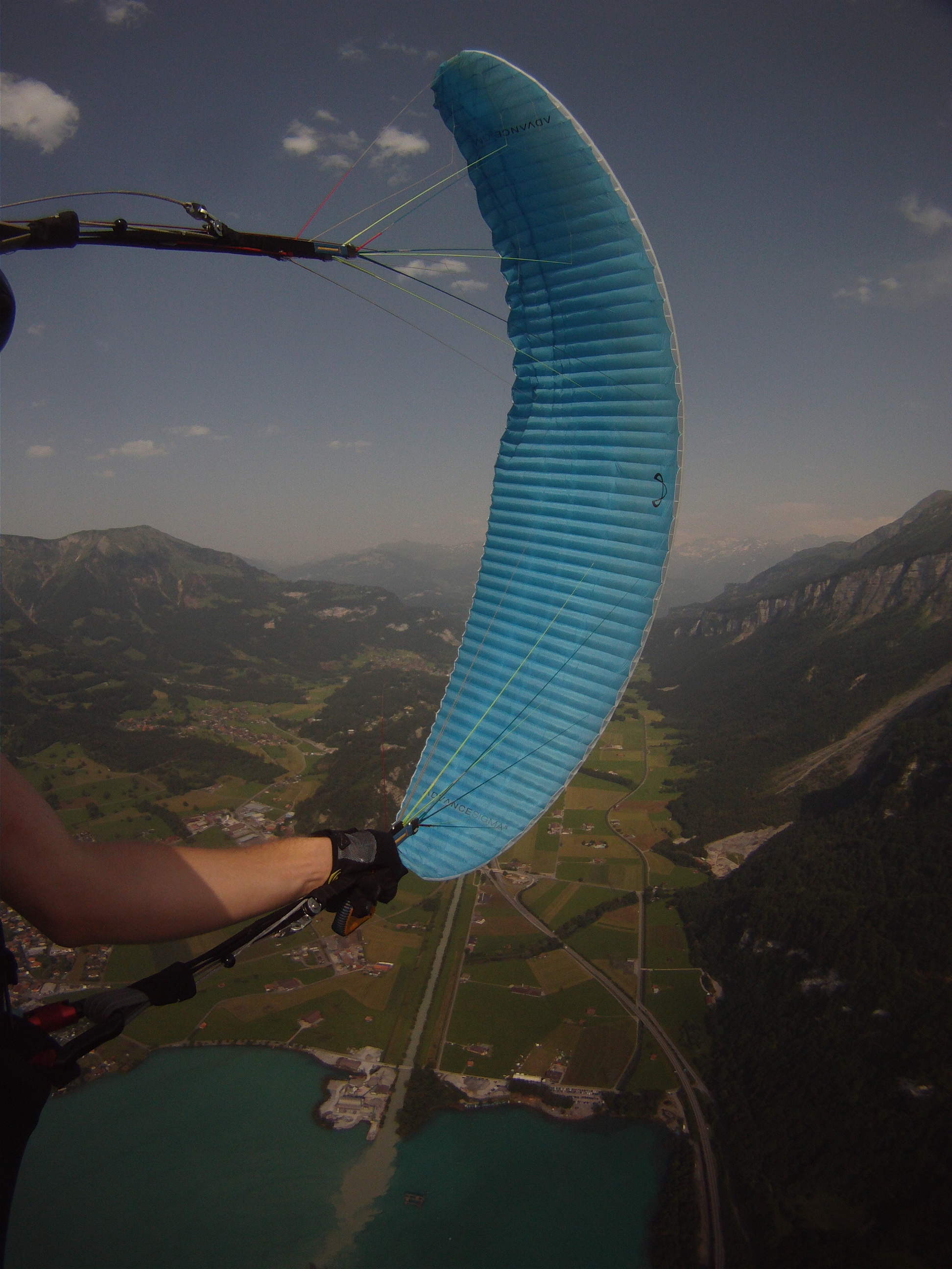 a SAT with a paraglider (Advance Sigma 8)